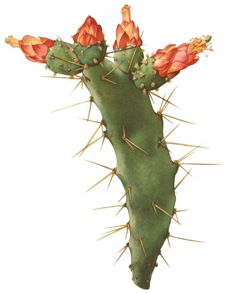 Flowering joint of Nopalea (Opuntia) dejecta